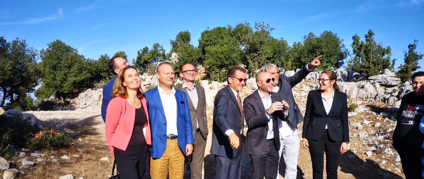 left to right: head of section at the EU Delegation Jose Luis Vinuesa Santa Maria, deputy French ambassador Salina Grenet-Catalano, Austrian ambassador Marian Wrba, Polish ambassador Przemysław Niesiołowski, German ambassador Georg Birgelen, Minister of Environment of Lebanon Fadi Jreissati, NN, Danish ambassador Merete Juhl